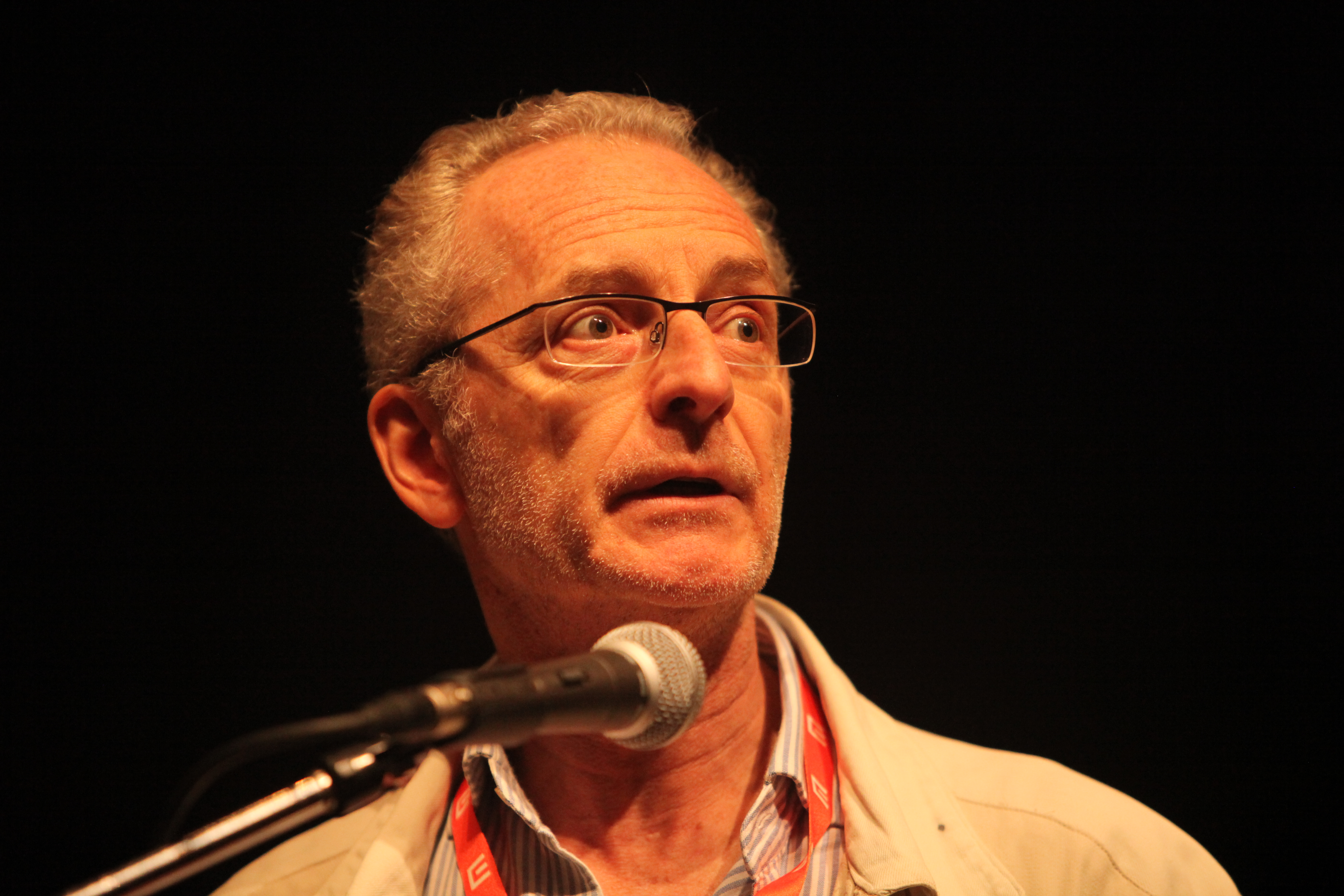 Italian film producer, director and former investment banker Uberto Pasolini Dall'Onda at the Karlovy Vary International Film Festival in July 2014.